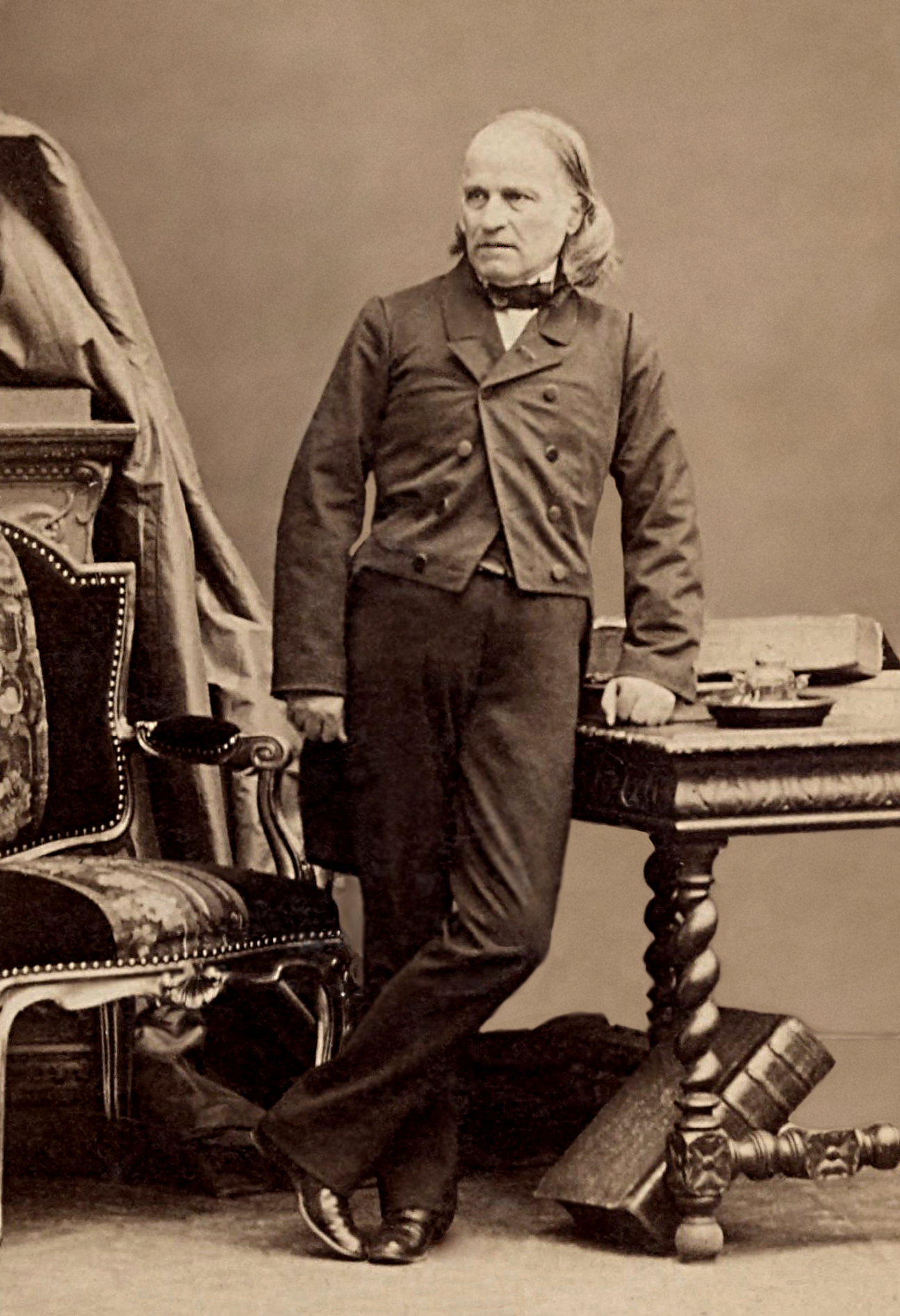 Joseph Louis Elzéar Ortolan (1802 - 1873), french jurist